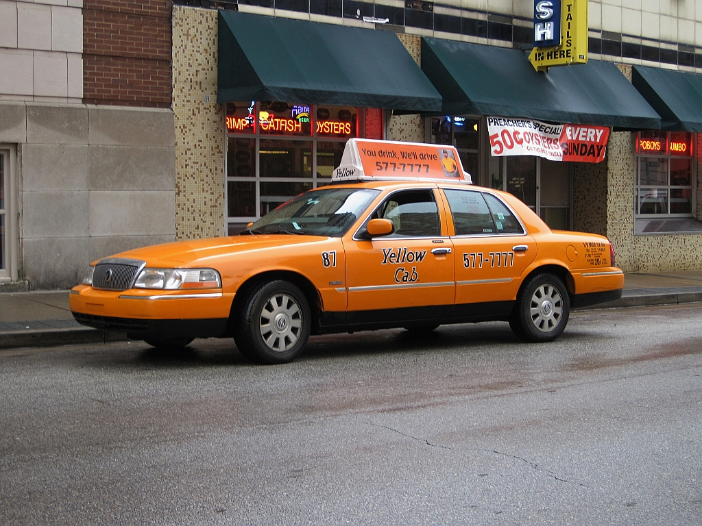 Memphis, Tennessee Mercury Grand Marquis Yellow Cab